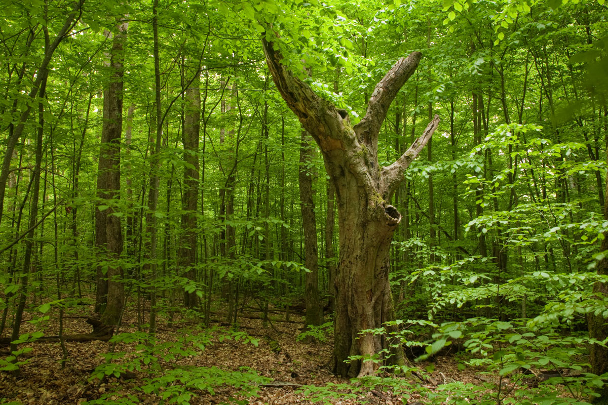 Uzunbudzhak rezerve